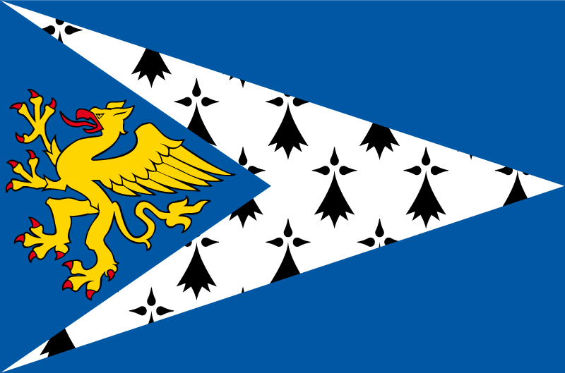 Flag of Saint-Brieuc Country